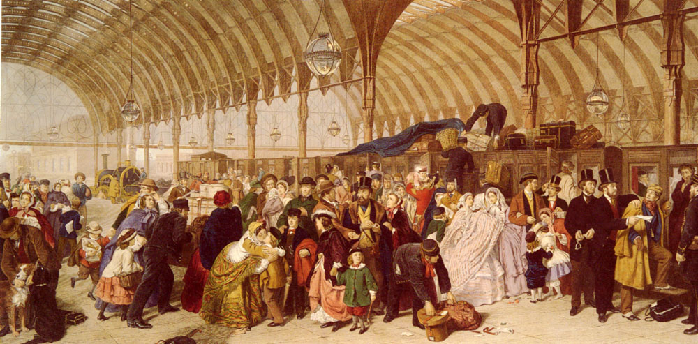 The Railway Station (1862) by Frith - the girl in the pink dress is the artists daughter, Jane Ellen Panton